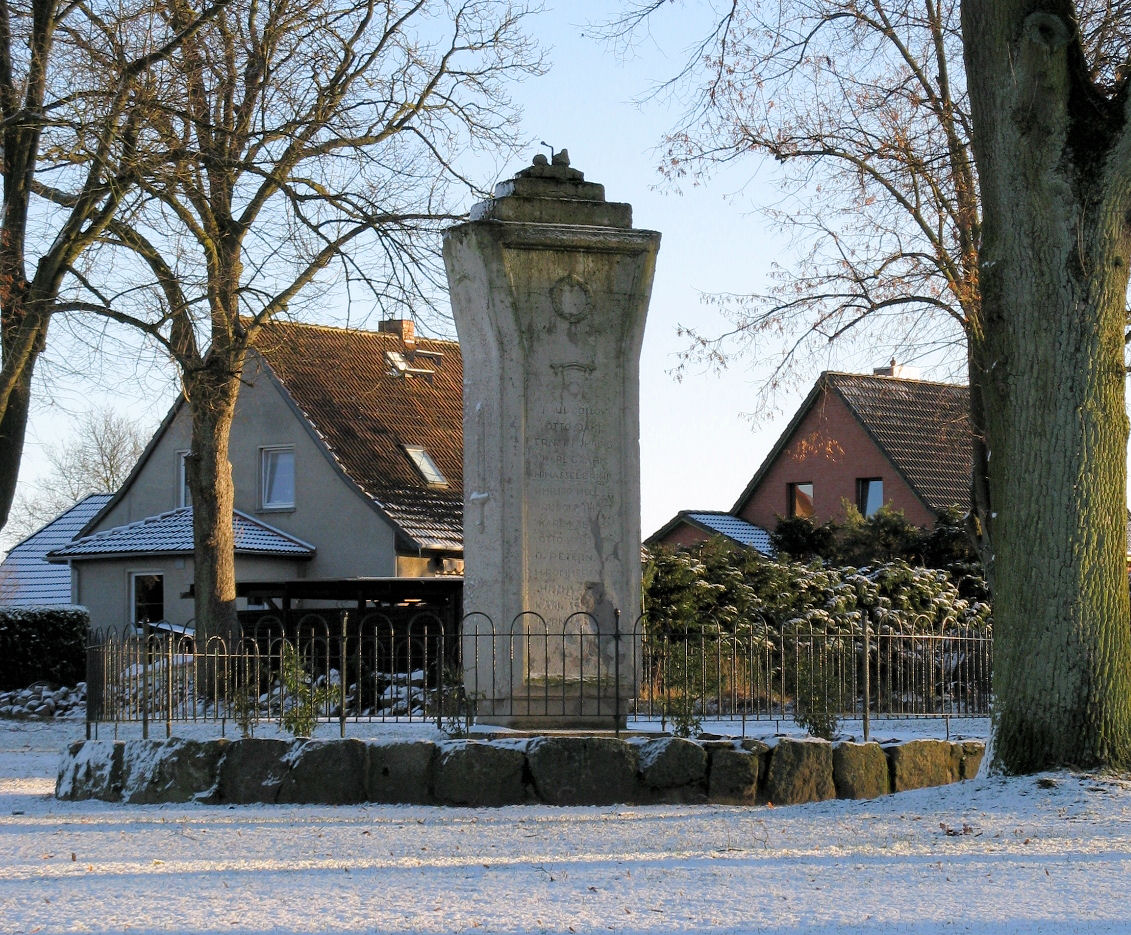 War memorial in Holthusen, Mecklenburg-Vorpommern, Germany